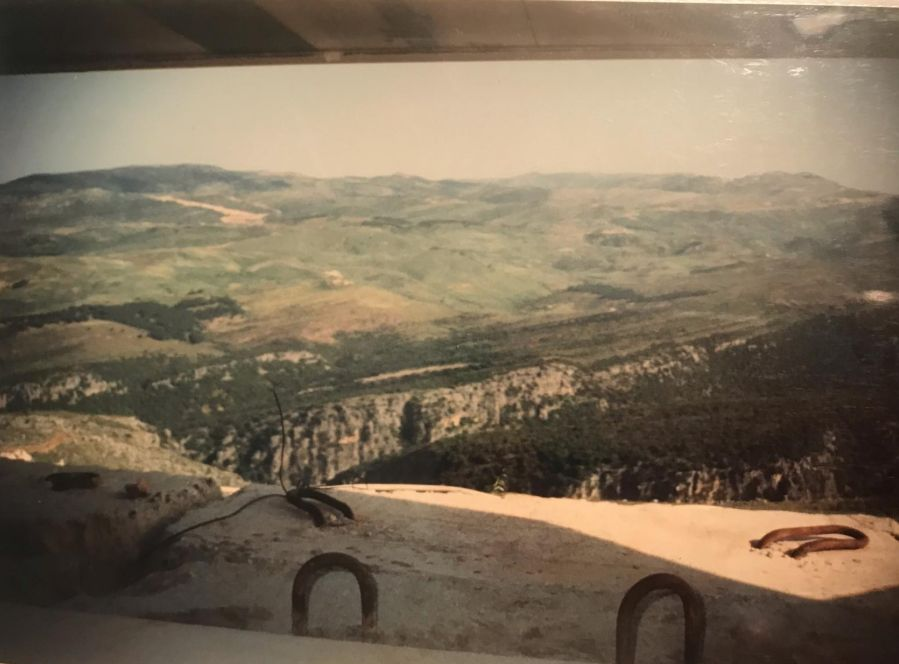 מבט מהתצפית לכיוון צפון למוצבי ריחן עישייה סוג׳וד